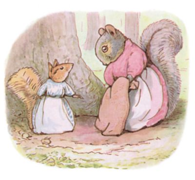 Illustration of Mrs. Chippy Hackee and the Goody Tiptoes from The Tale of Timmy Tiptoes